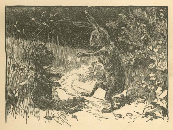 Br'er Rabbit and the tar baby from Uncle Remus, His Songs and His Sayings: The Folk-Lore of the Old Plantation, by Joel Chandler Harris, p. 23. Illustrations by Frederick S. Church and James H. Moser. New York: D. Appleton and Company, 1881.